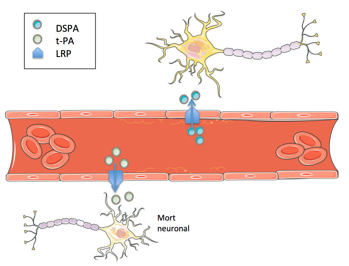 Schematic representation of the effects of vascular tPA and desmoteplase (DSPA) on the neurovascular unit. Both plasminogen activators traverse the BBB in a LRP-dependent process. Furthermore, desmoteplase antagonizes tPA-induced enhancement of NMDA-mediated neurotoxicity by competing for LRP at the BBB. However, only tPA influences NMDA-mediated neurotoxicity.